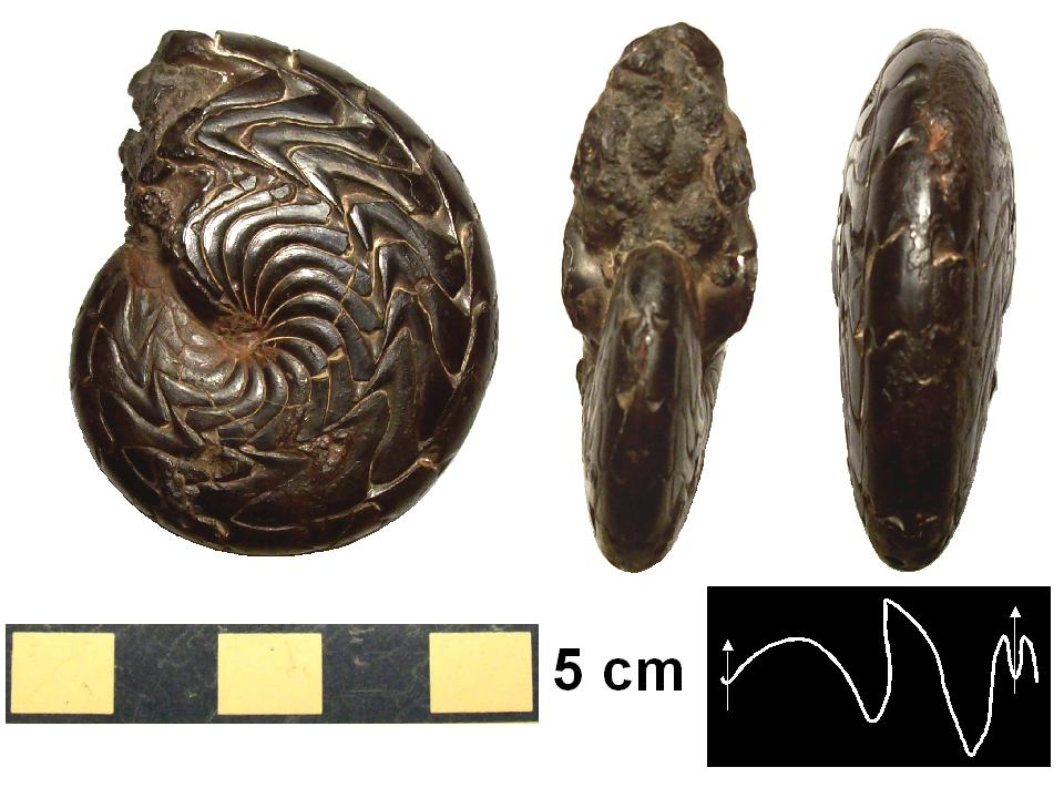 Sporadoceras specimen. A goniatite from devonian of Morocco.